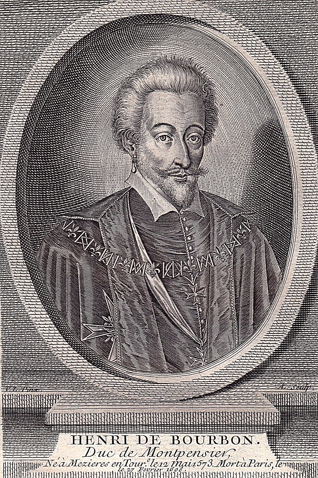 Portrait of Henry, Duke of Montpensier